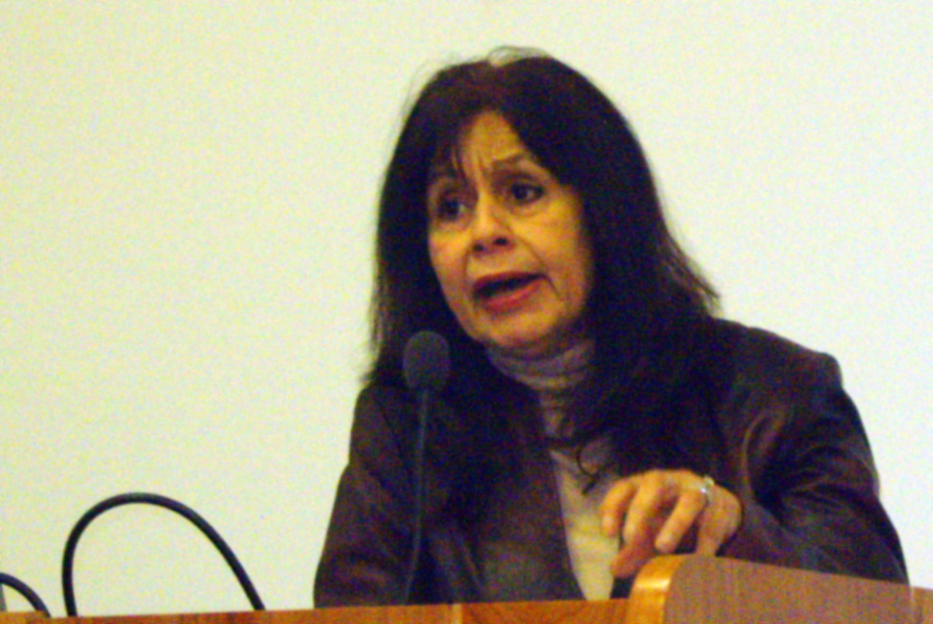 photo of Dr. Ghada Karmi taken with her permission during a lecture in Manchester University, UK. Feb 2008